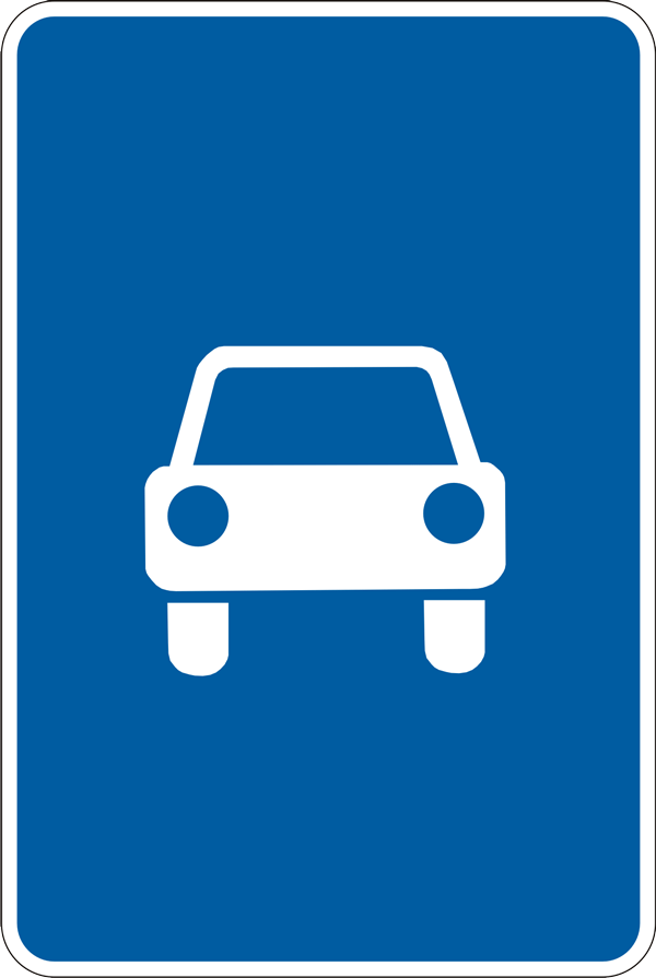 Road for exclusive use by motor vehicles.